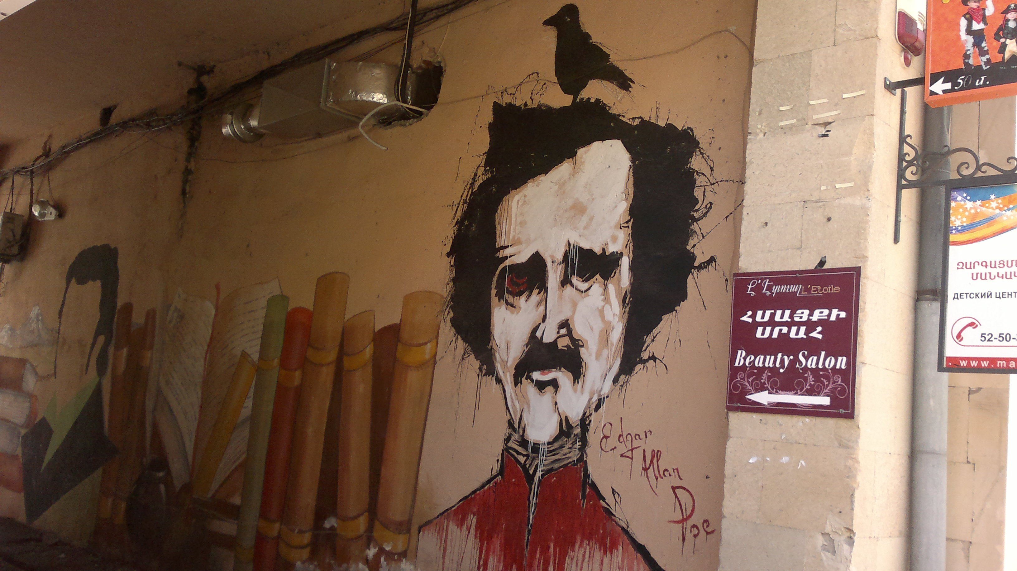 Edgar Allan Poe. Graffiti. Yerevan, Armenia